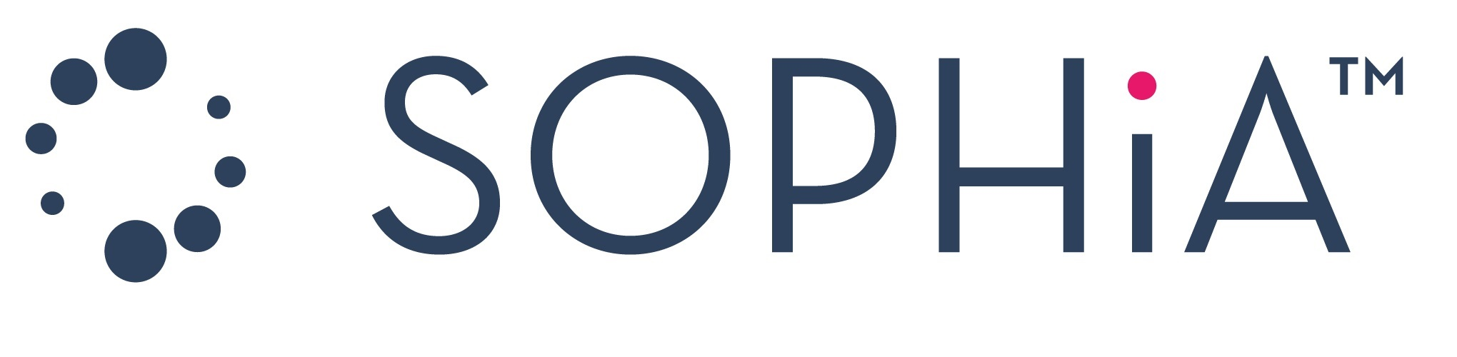 Sophia_Genetics loyog